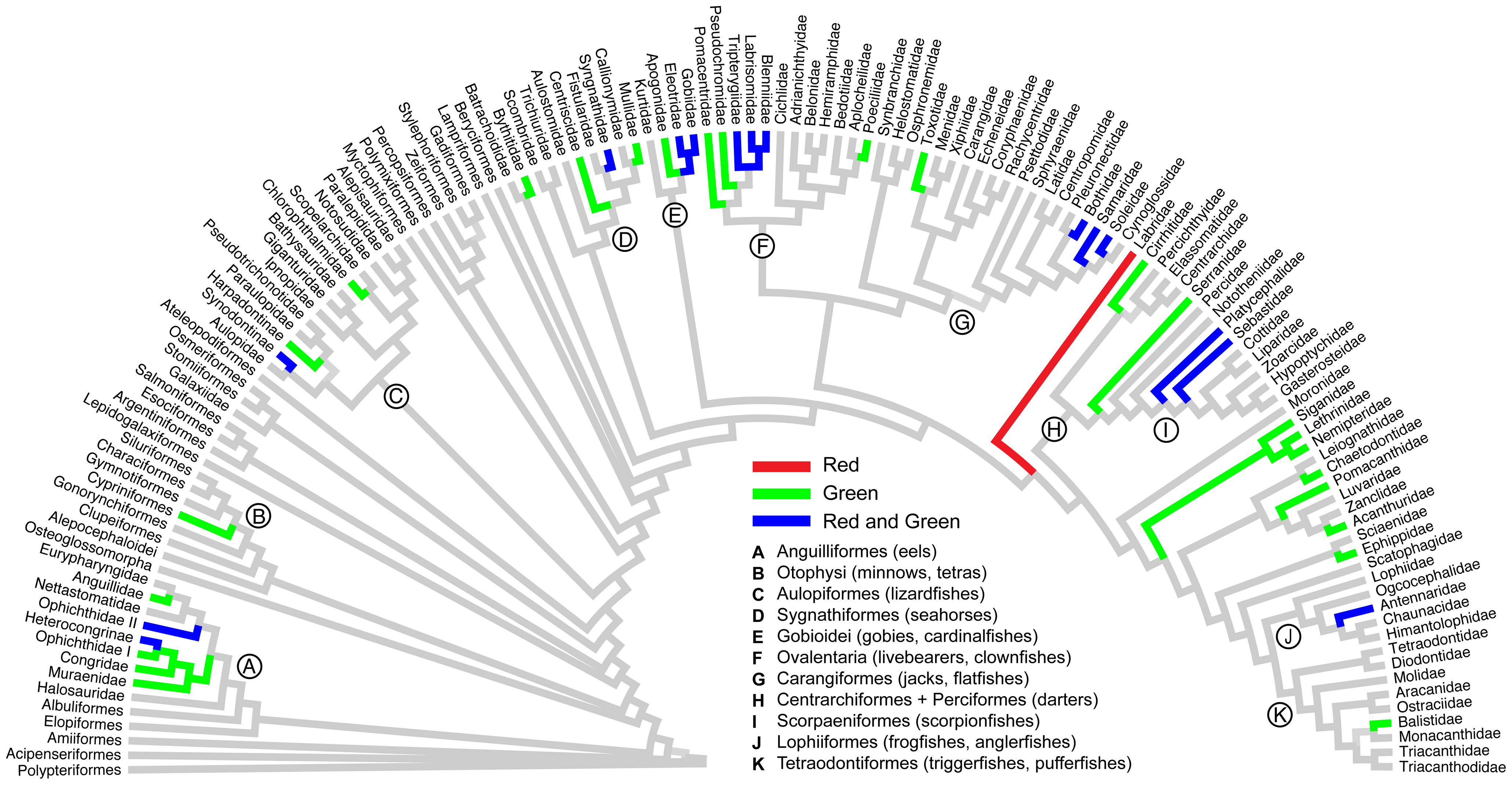 Observed occurrences of green and red fluorescent emissions indicate the evolution of biofluorescence is widespread across the evolutionary history of ray-finned fishes (Actinopterygii). Family-level tree showing evolutionary relationships of ray-finned fishes inferred from maximum likelihood analysis of 221 species and six (one mitochondrial, five nuclear) genes. Note: Not all biofluorescent lineages are shown due to sampling limitations (see Table S1, Fig. S1).